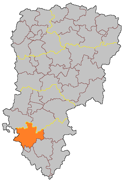 Кантон Нёйи-Сен-Фронт на карте департамента Эна